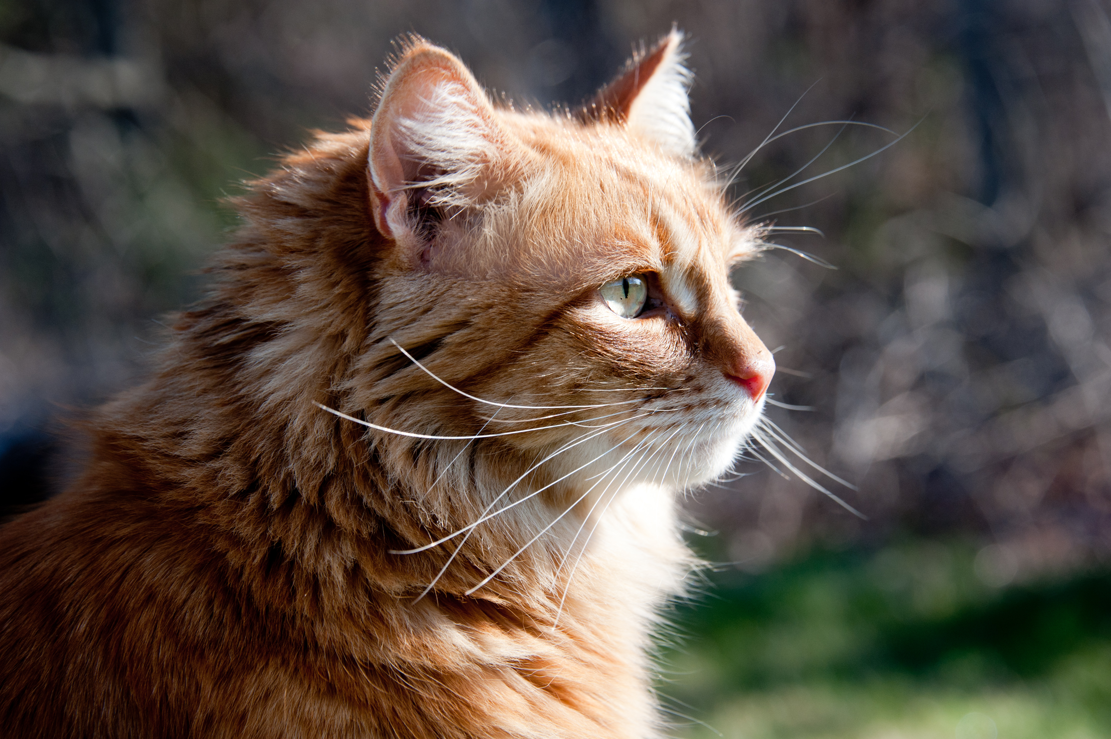 It was a nice sunny day (unlike today) and Gillie was facing away from the sun. The strands of fur that stuck out looked like little golden threads. The camera just wouldn't catch them. This was the best of the lot.